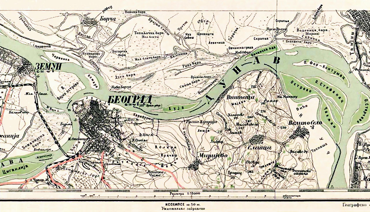 Belgrade city with Danube and Sava river portion of the sheet from special military map of Serbia published 1893